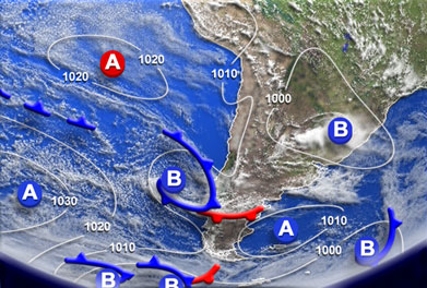 carta sinoptica